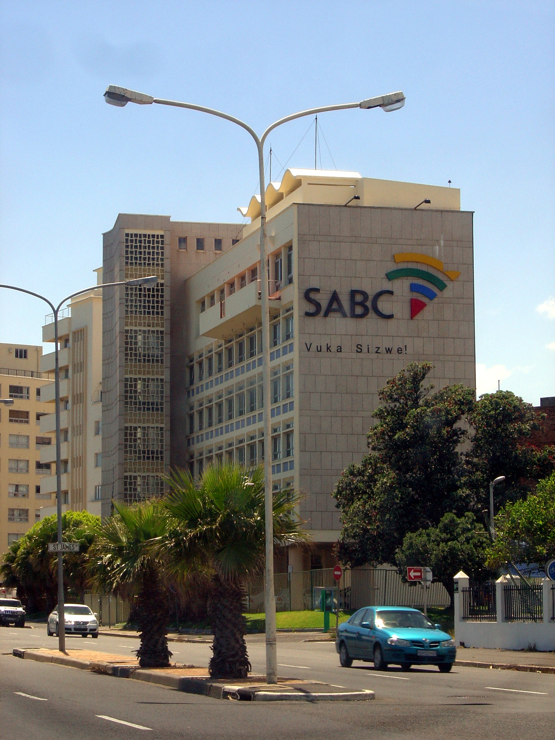 The South African Broadcasting Corporation building in Sea Point, Cape Town.